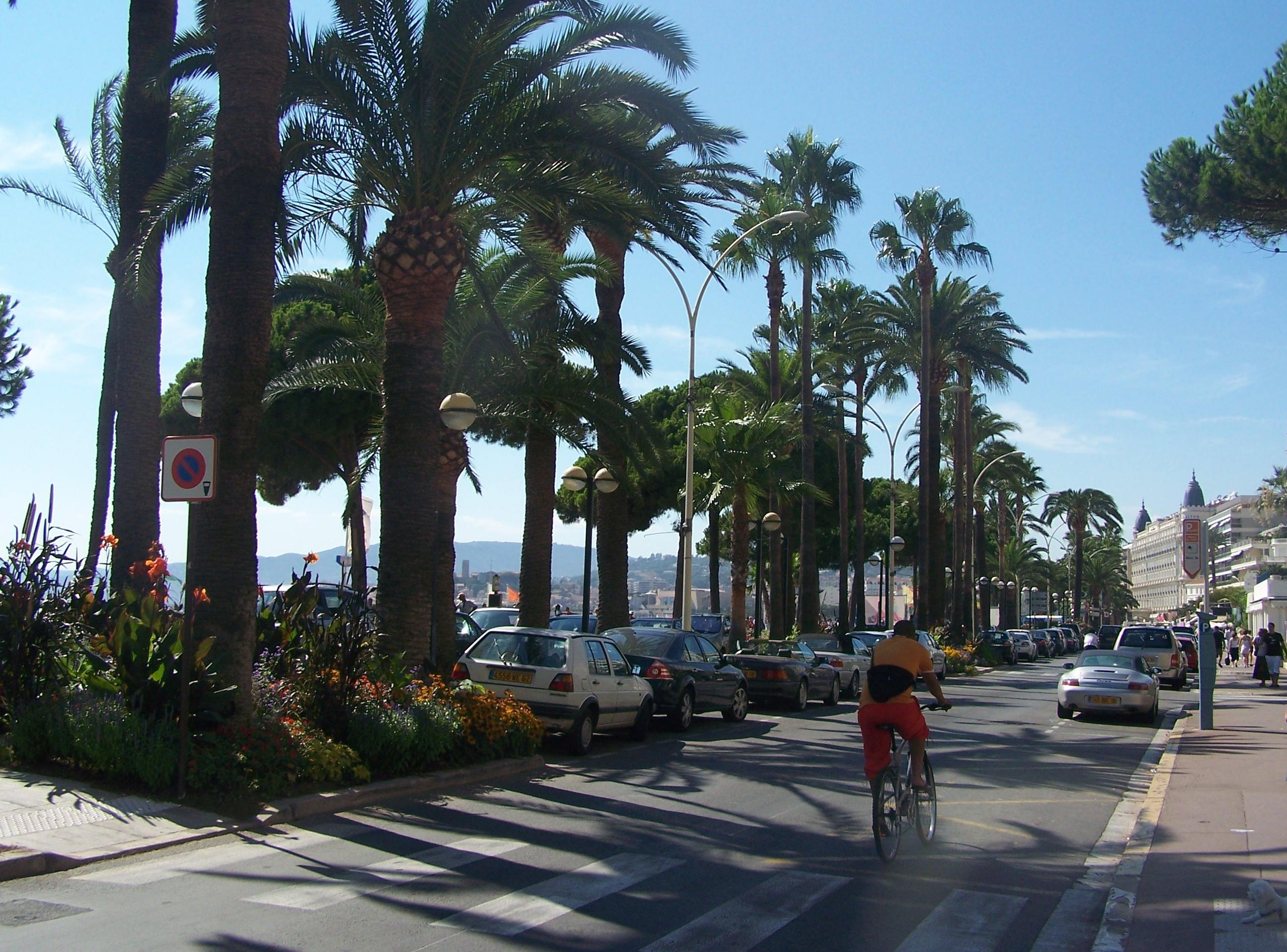 La Croisette boulevard, in the city of Cannes in the Alpes-Maritimes, France.